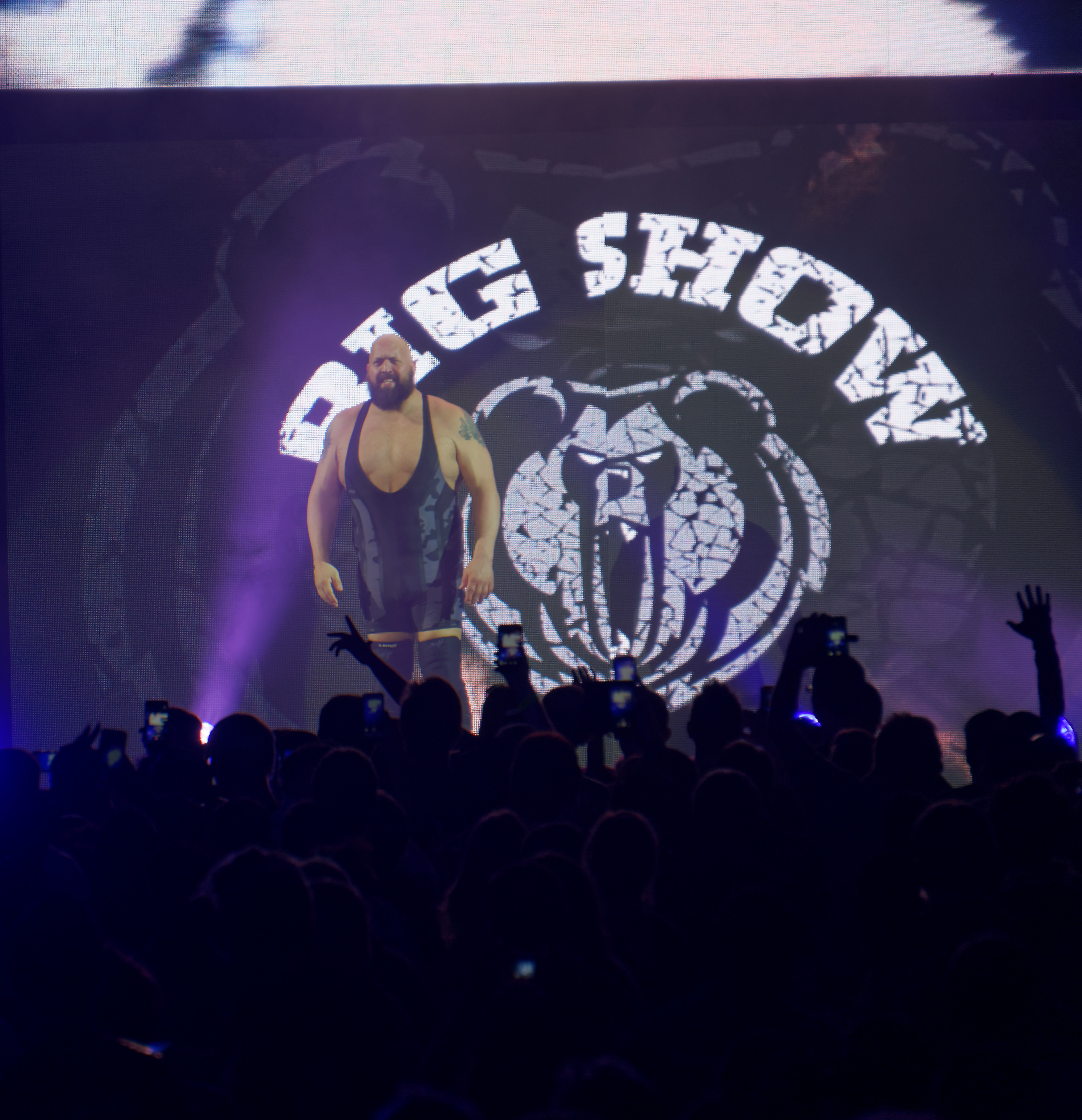 WWE Live returns to London this September Join Roman Reigns, Seth Rollins and more WWE Superstars at the 02 Arena for a one-night-only WWE Live in London on Wednesday, 7 Sept. The Big Show def. (pin) Epico & Primo Type of match : handicap tag